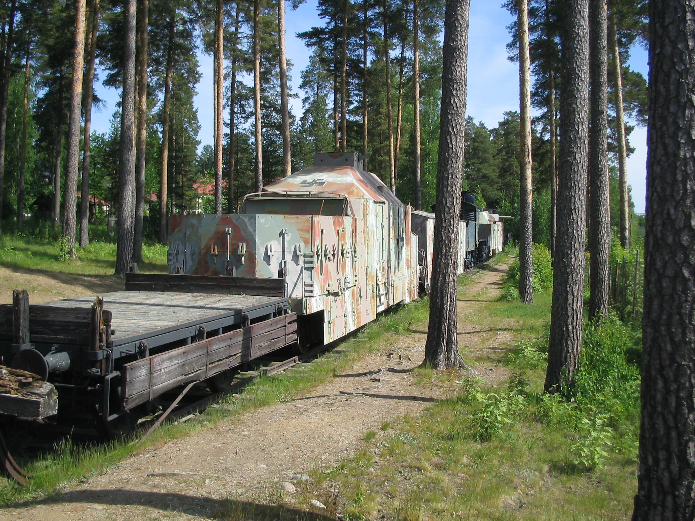 Armoured train, displayed in Parola tank museum.